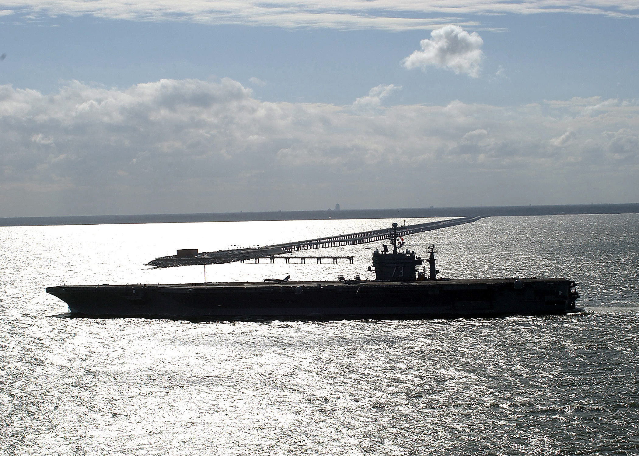 Aboard USS George Washington (CVN 73) Nov. 9, 2003 -- The USS George Washington (CVN 73), sails past the Chesapeake Bay Bridge Tunnel on the way to sea, as it prepares for the Composite Training Unit Exercise (COMPTUEX) in the Atlantic Ocean. U.S. Navy photo by Photographer's Mate Airman Joan Kretschmer. (RELEASED)